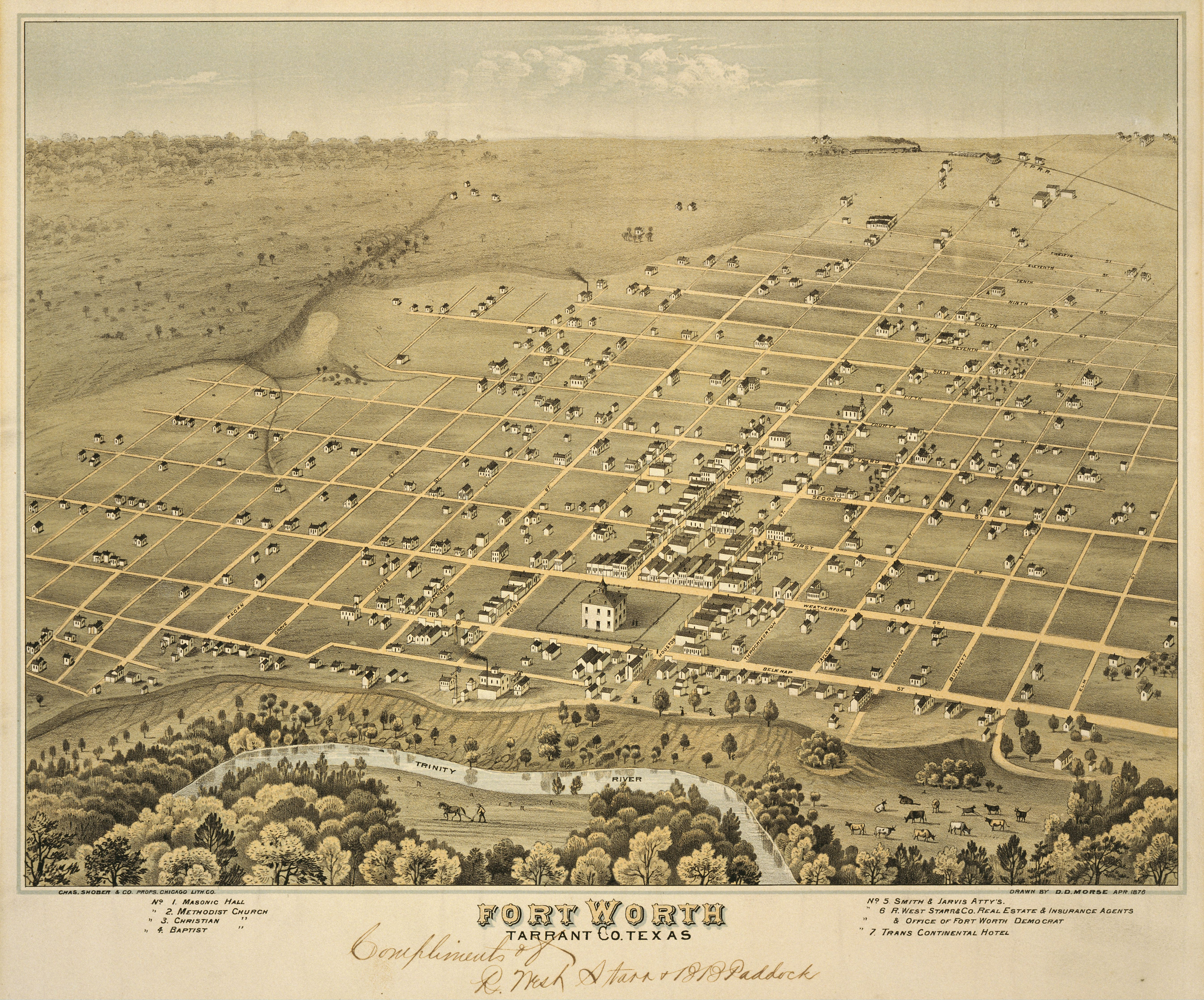 Fort Worth, Texas in 1876. Fort Worth, Tarrant Co. Texas, 1876. Toned lithograph, 14.4 x 19 in. Published by Chas. Shober & Co. Props. Chicago Lith.Co. Amon Carter Museum, Fort Worth, Texas. Gift of Mr. and Mrs. Will F. Collins.